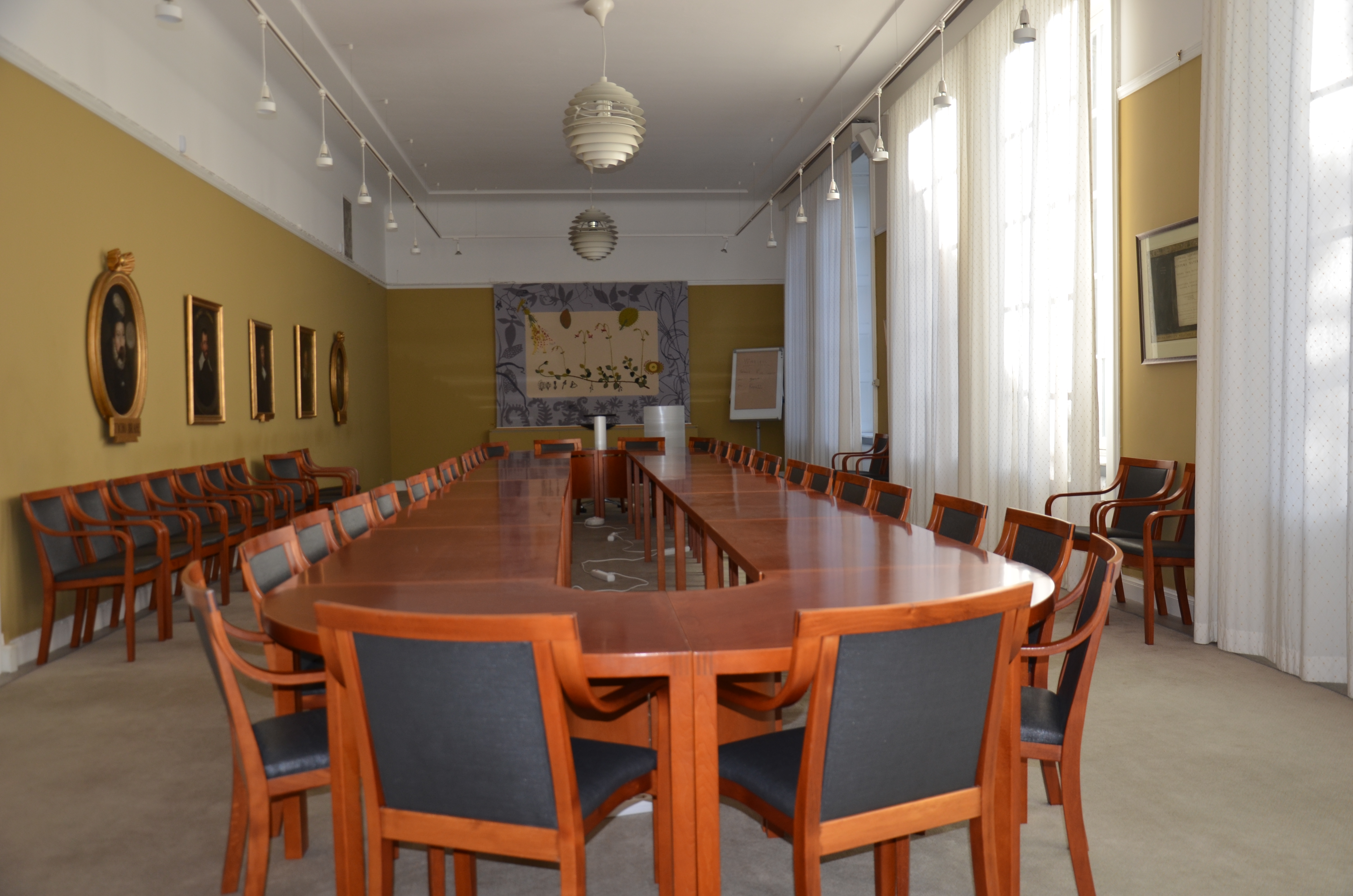 Vetenskapsakademiens sessionssal